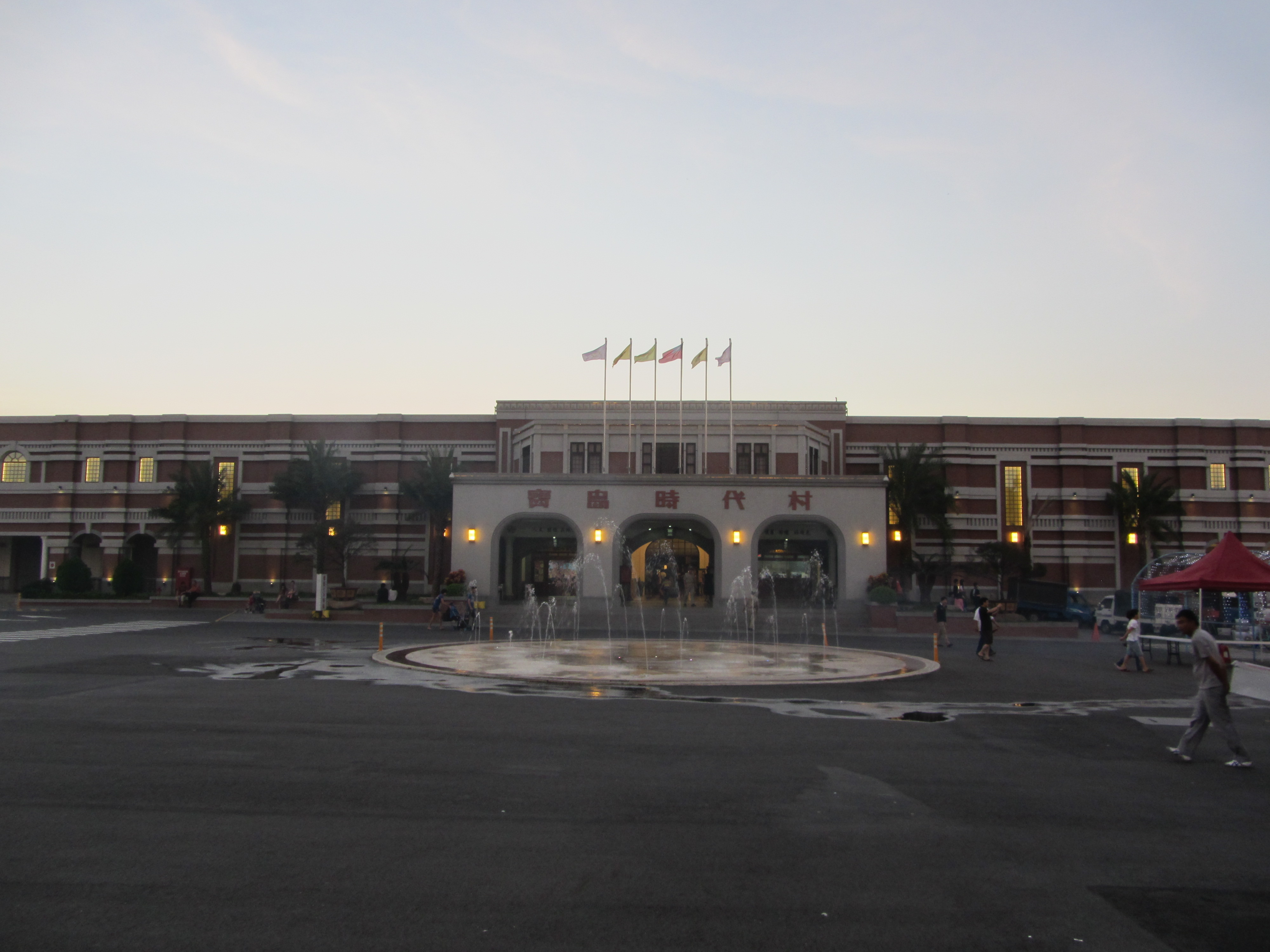 Taiwan Times Village, Caotun Township, Nantou County, Taiwan